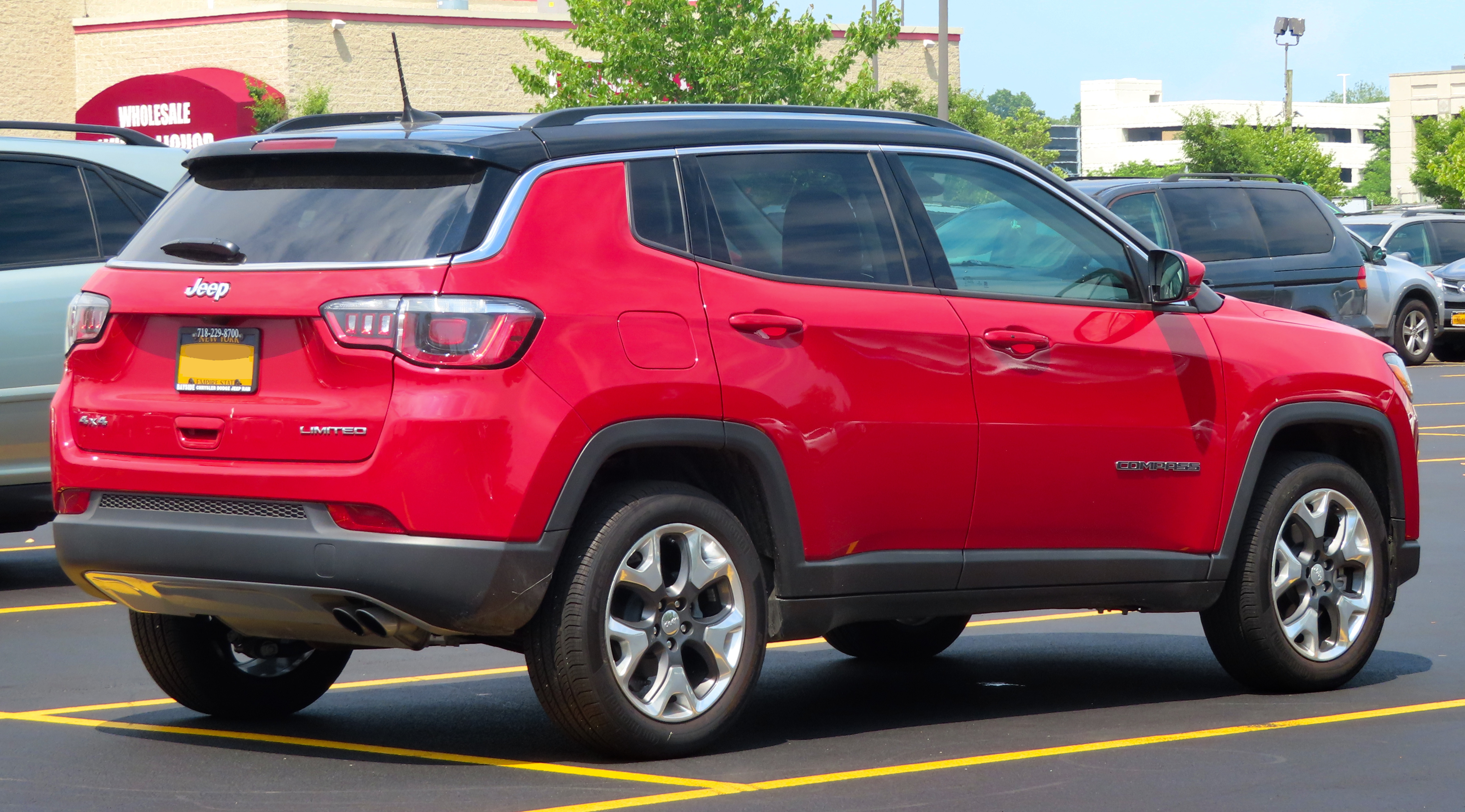 A 2019 Jeep Compass Limited photographed in College Point, Queens, New York, USA